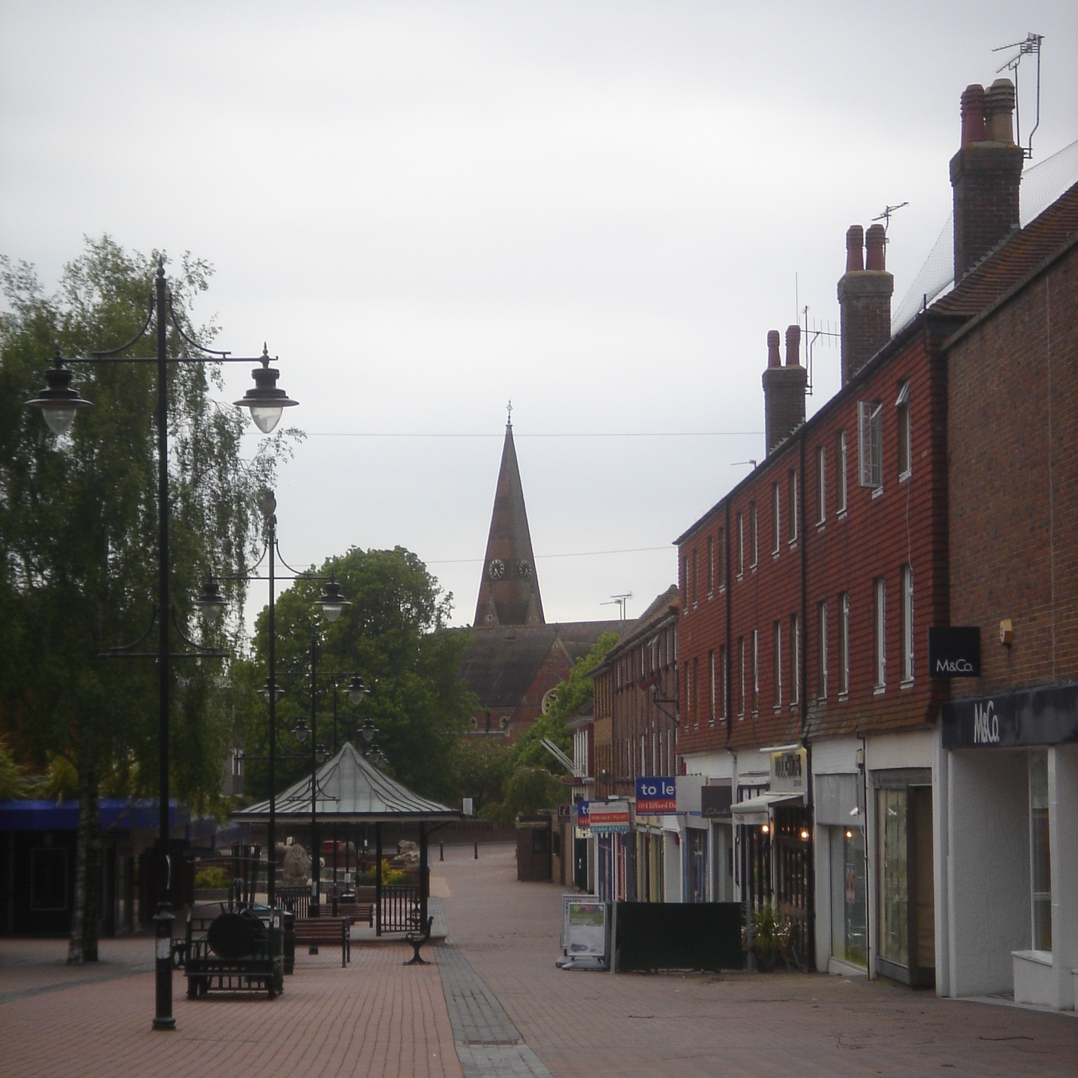 St John the Evangelist's Church, Church Road, Burgess Hill, District of Mid Sussex, West Sussex, England. This view of Burgess Hill's parish church was taken from the middle of Church Walk, and shows how the steeple dominates the town centre and acts as a focal point down the main shopping street. listed at Grade II* by English Heritage (IoE Code 302096)